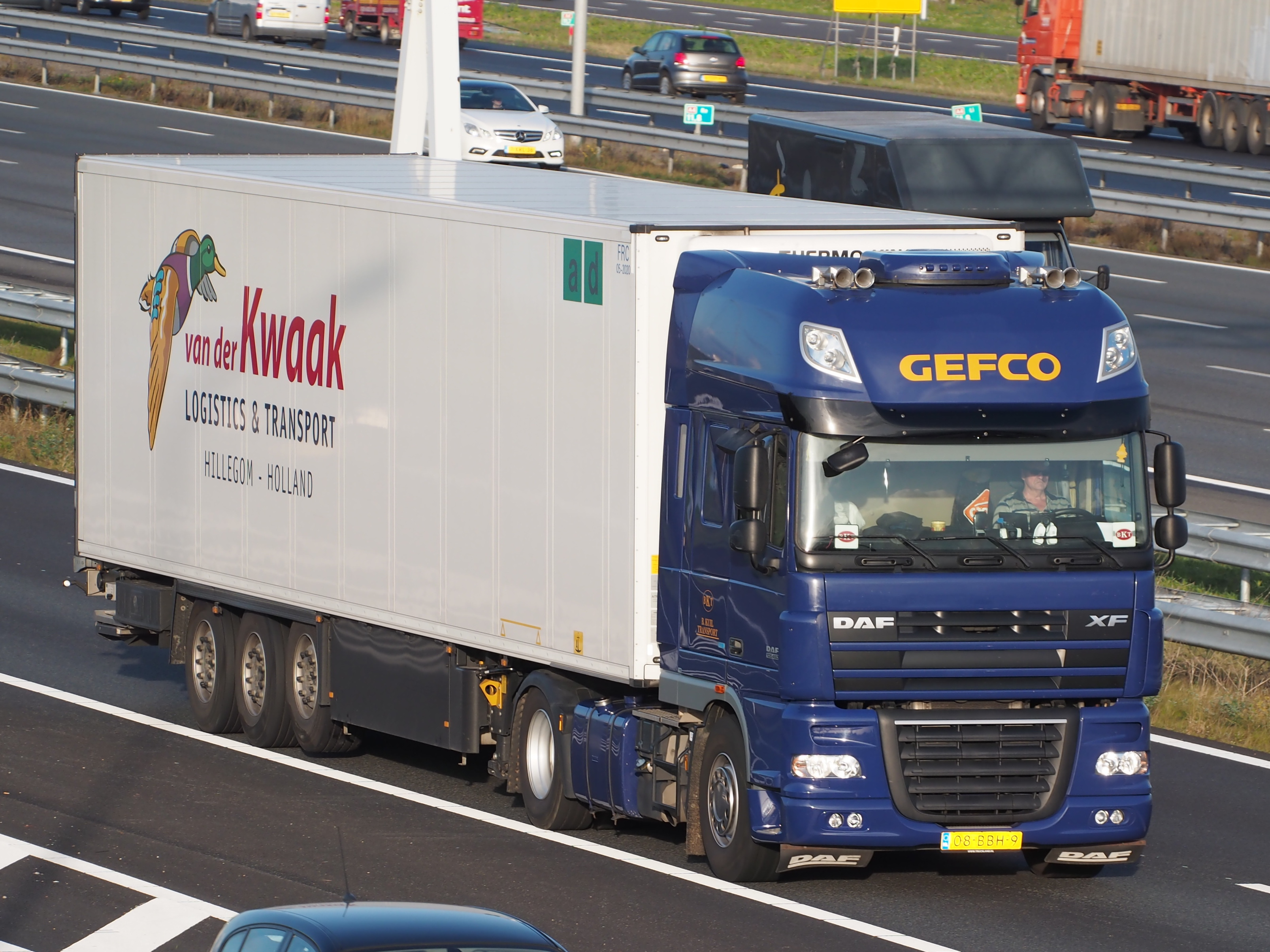 Photographed on the A4 motorway near Hoofddorp, The Netherlands.